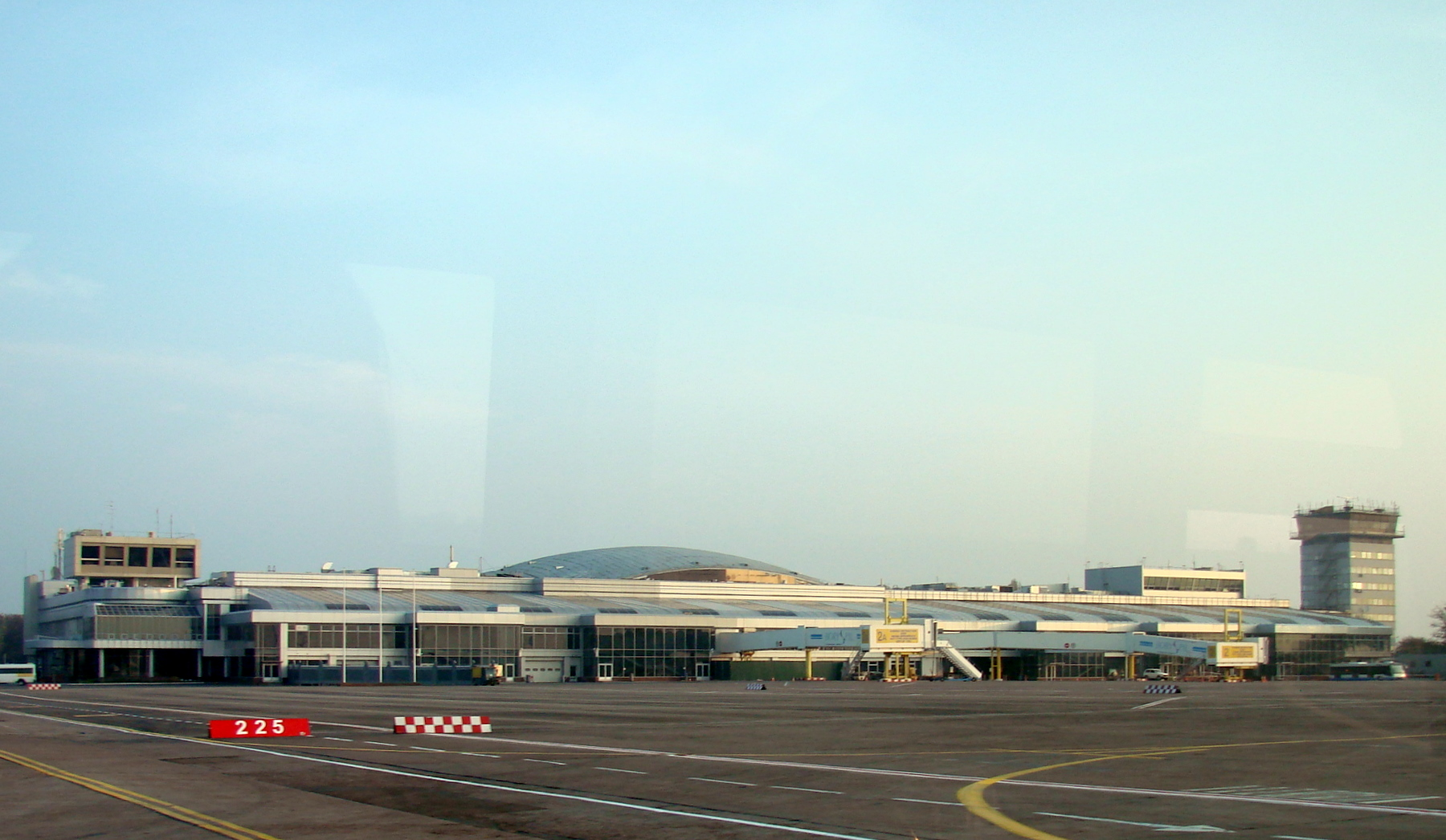 Boryspil's Terminal B as seen from the apron